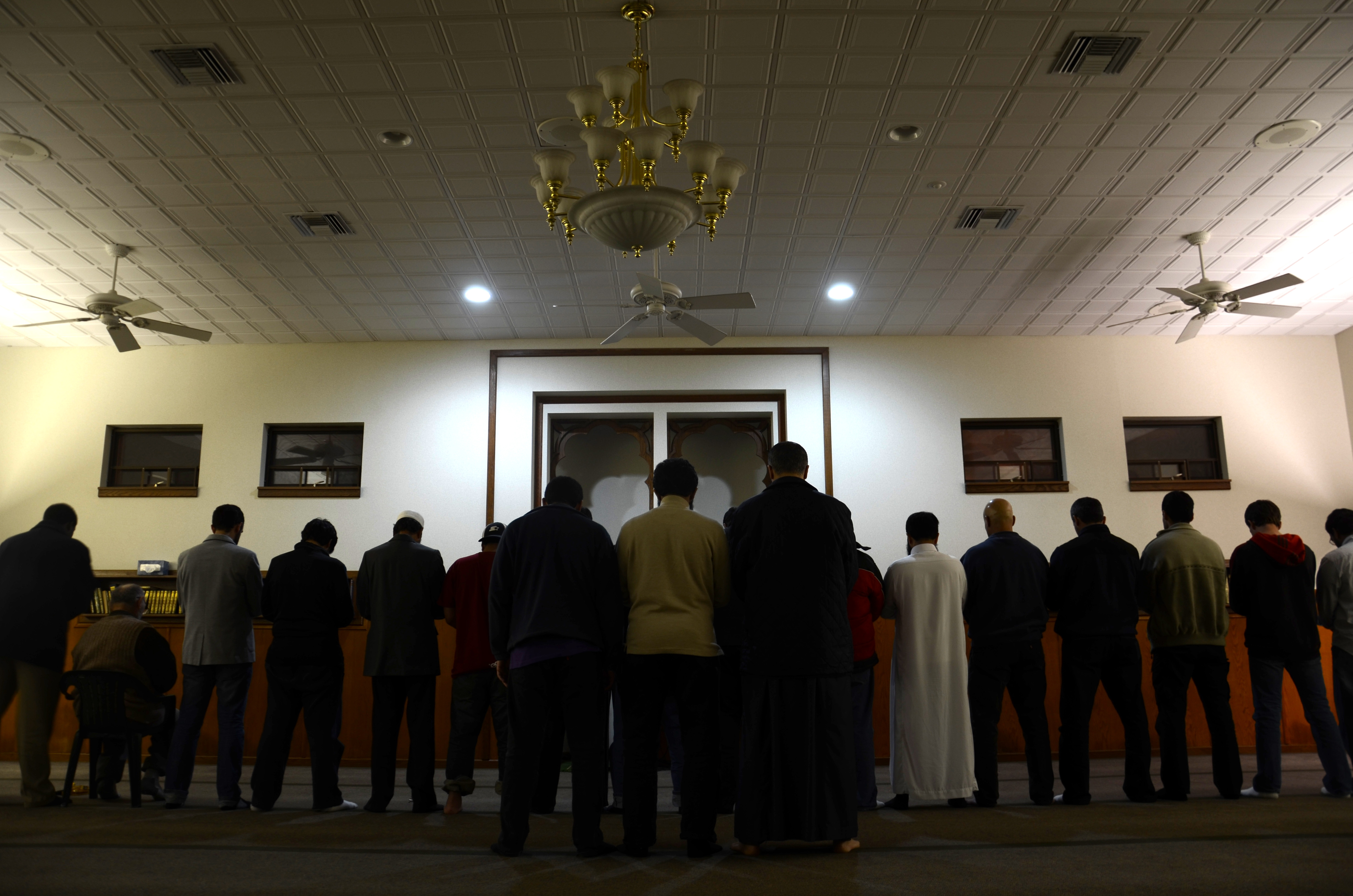 This photo was taken during the evening prayer at the Islamic Center of Central Missouri in Columbia, Missouri. Received by email from Alex Magera.